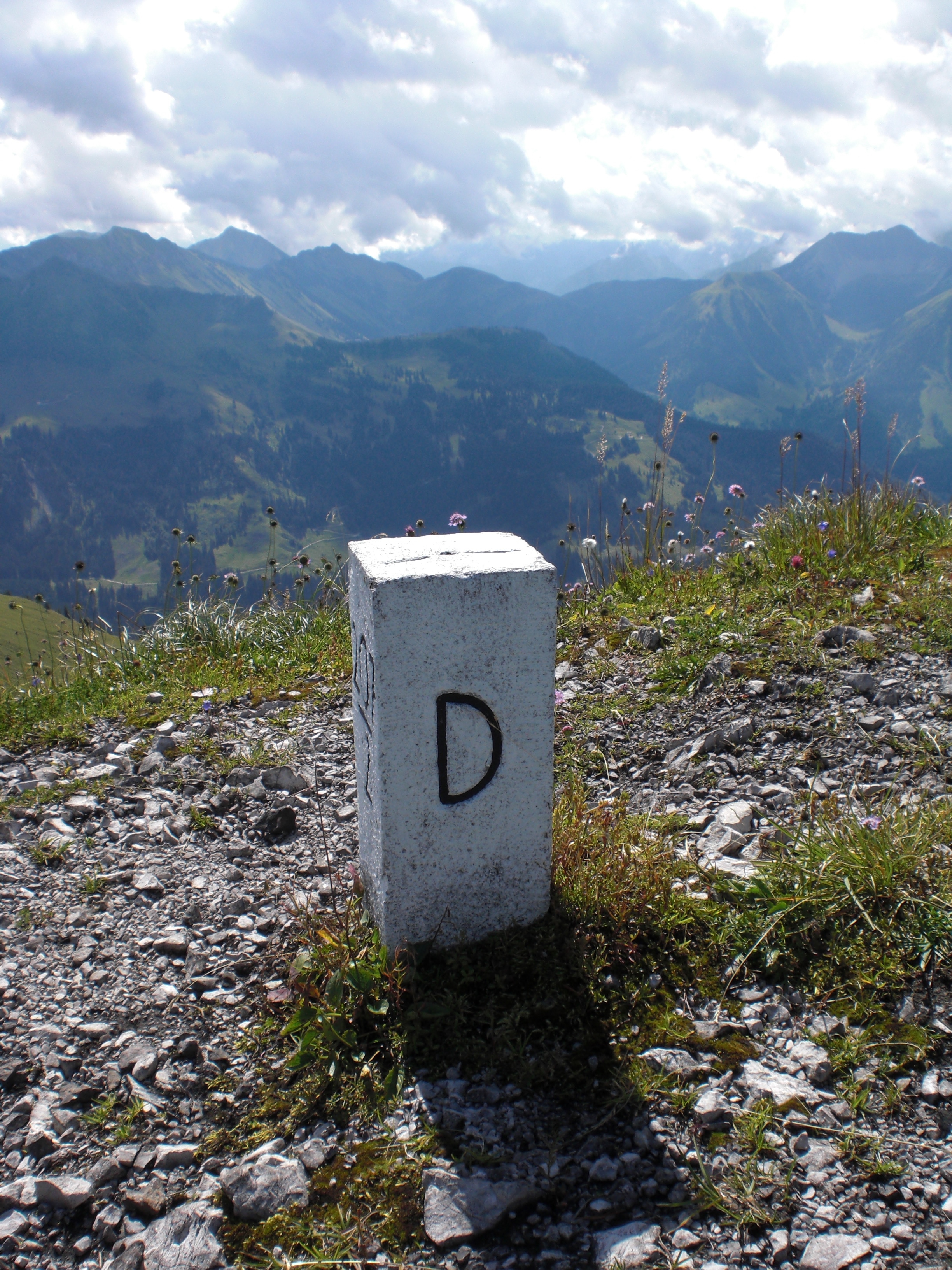 Boundary marker on the Demeljoch, a mountain at the border between Austria and Germany. The "D" stands for "Deutschland", i.e. Germany in German. The boundary marker is located a few meters east of the cross on the top of the Demeljoch. For an image of the other side of the stone, see File:Boundary stone on the Demeljoch - 1.jpg.